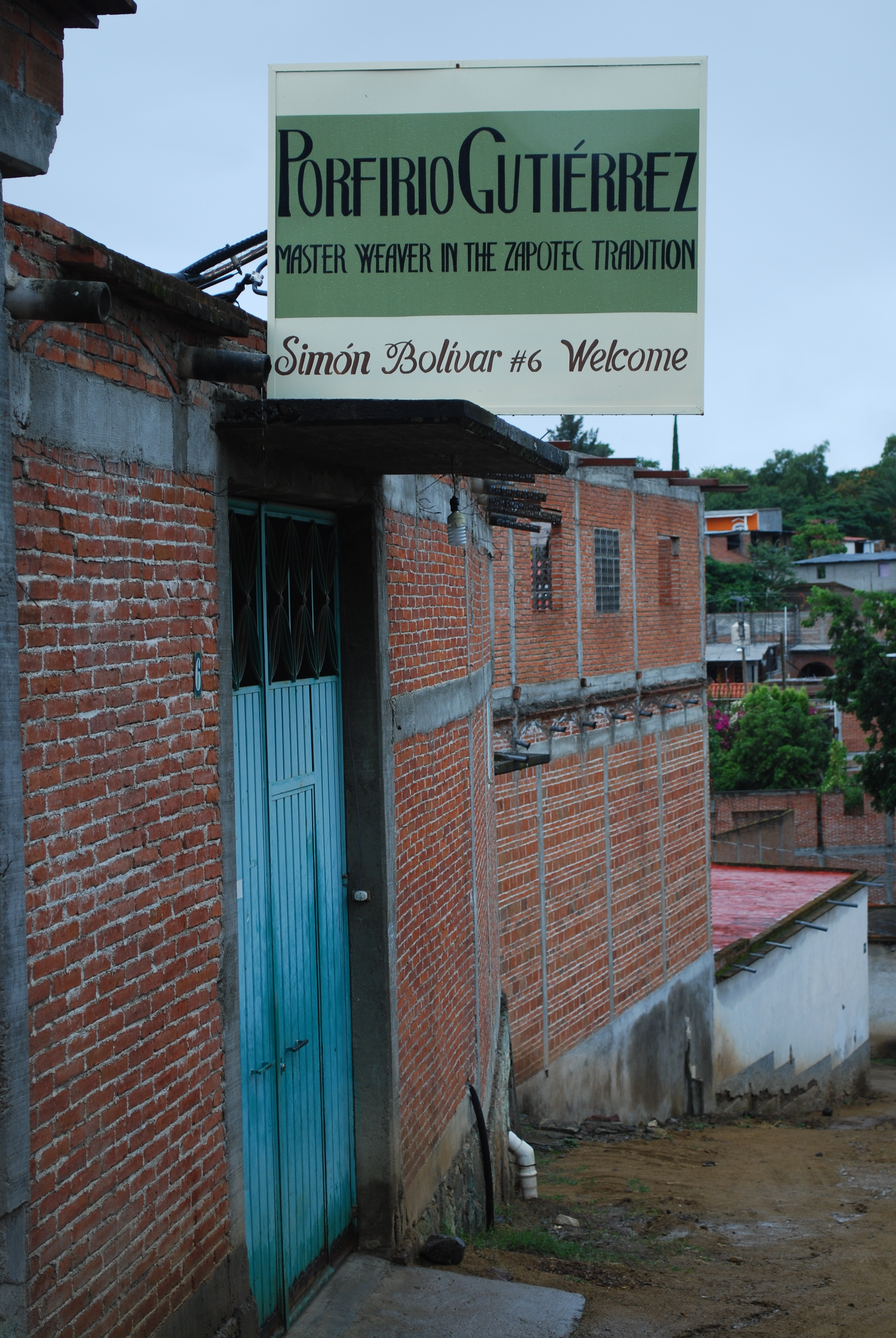 Entrance to the Porfirio Gutierrez family workshop in Teotitlan del Valle, Oaxaca, Mexico